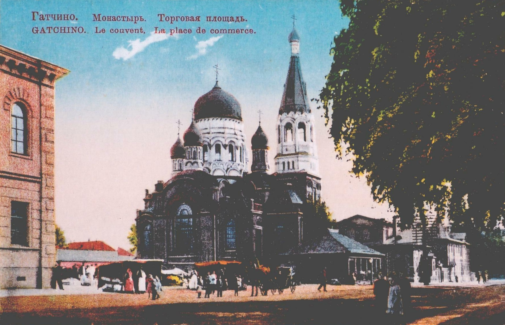 Gatchina (Russia)